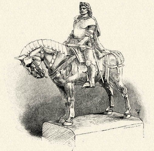 Mátyás király szobra. Háry Gyulától